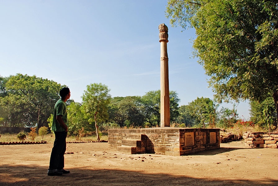 Another view of Heliodorus Pillar